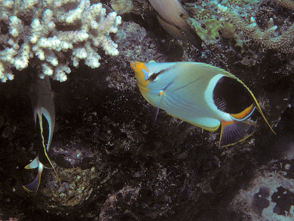 Chaetodon ephippium, Saddle butterflyfish. Underwater photograph, Hoga island, Sulawesi, Indonesia.